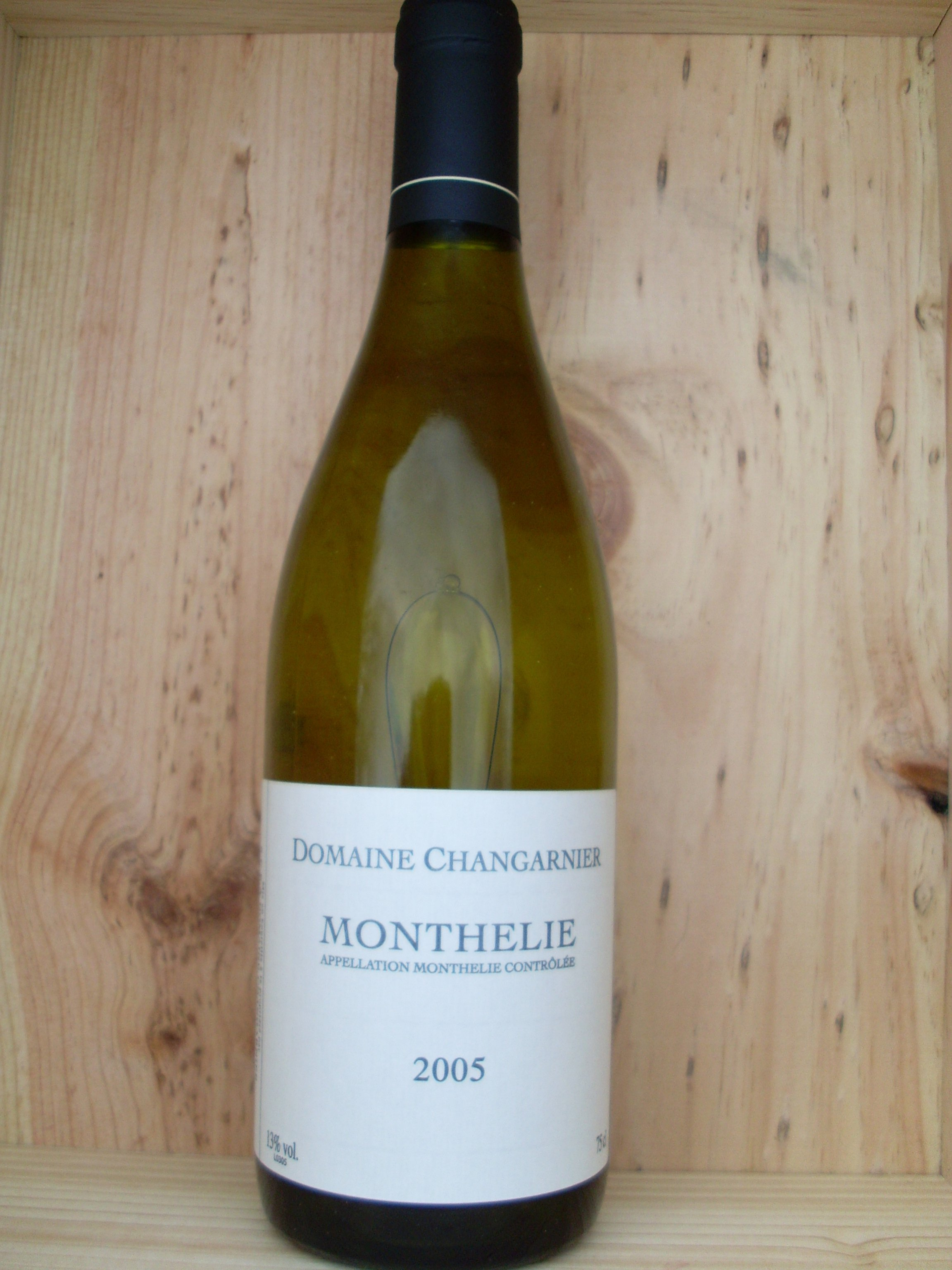 White Burgundy wine made from Chardonnay from the Monthelie region of France